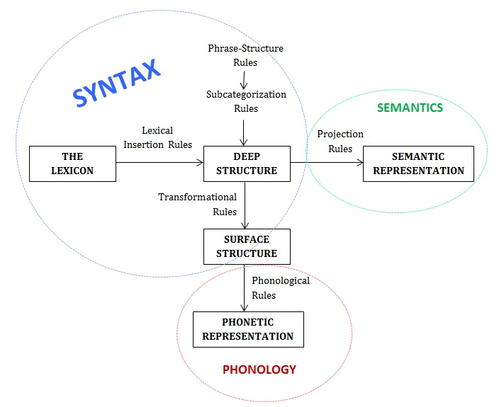 This diagram depicts the grammar model discussed in Noam Chomsky's Aspects of the Theory of Syntax (1965)